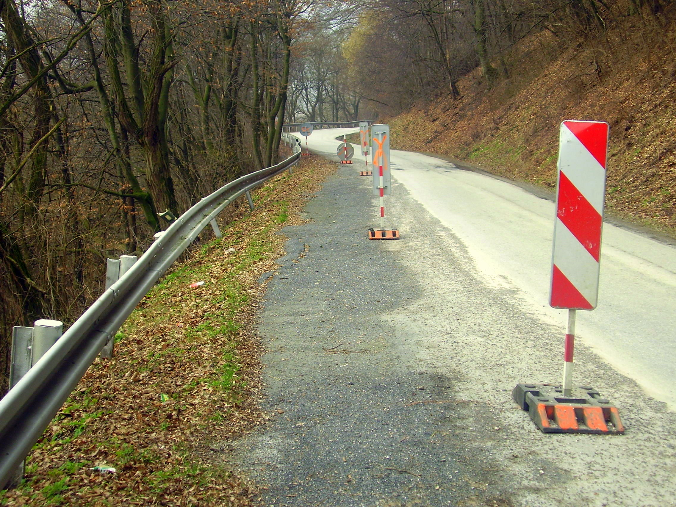 Sloping road by Vyšný Hrušov vilage in 2007